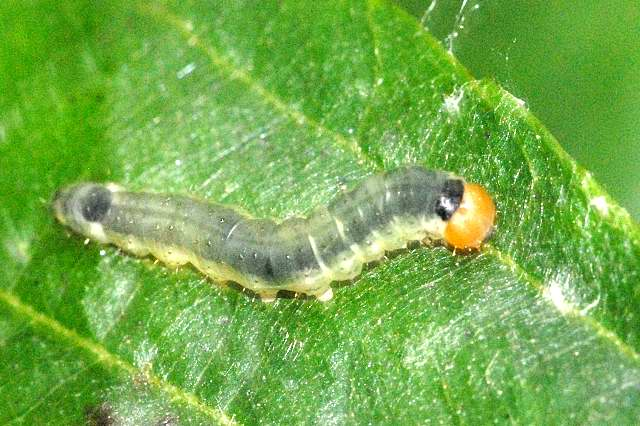 Ochropacha duplaris from Commanster, Belgian High Ardennes .